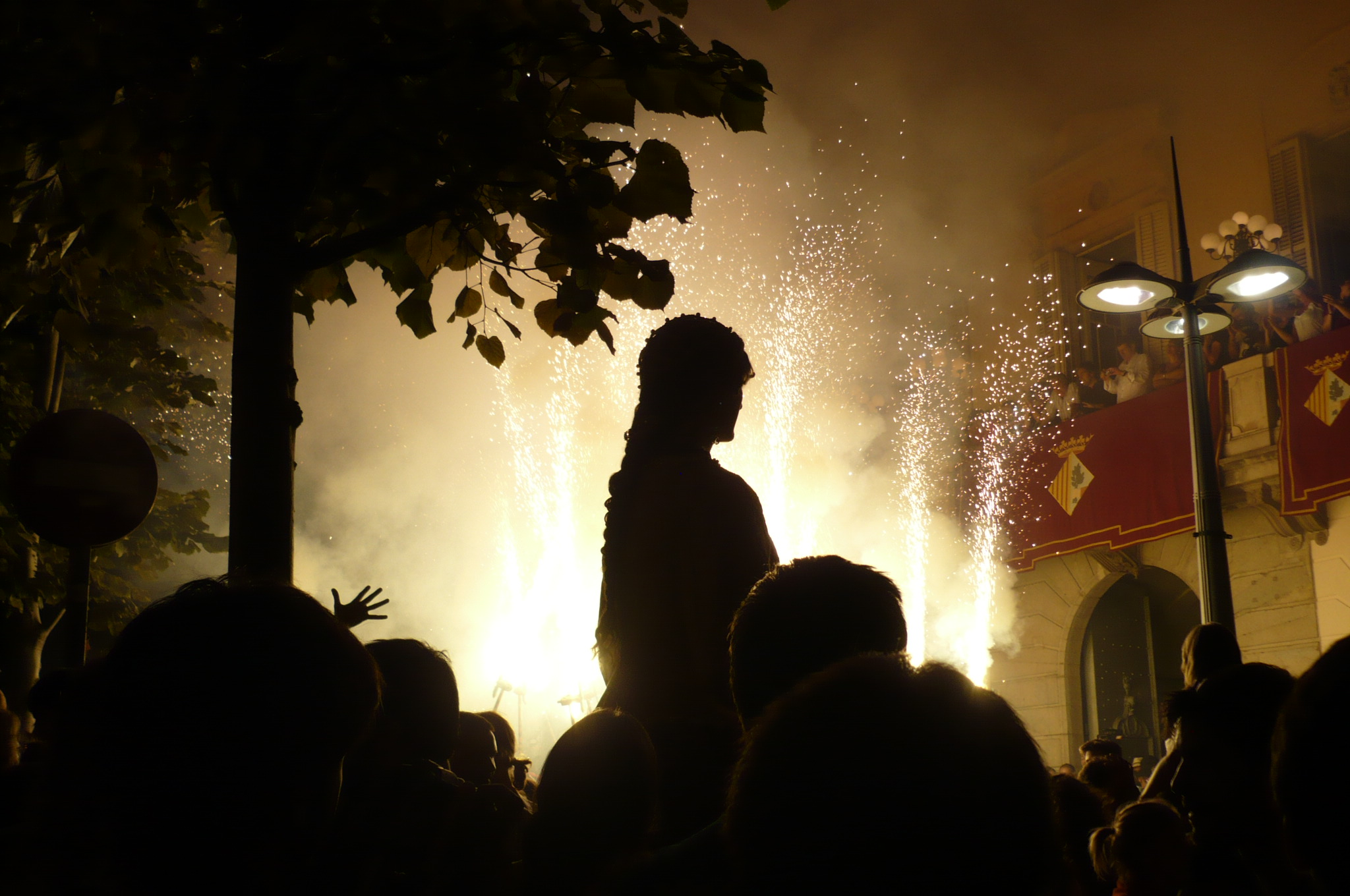 personal photo